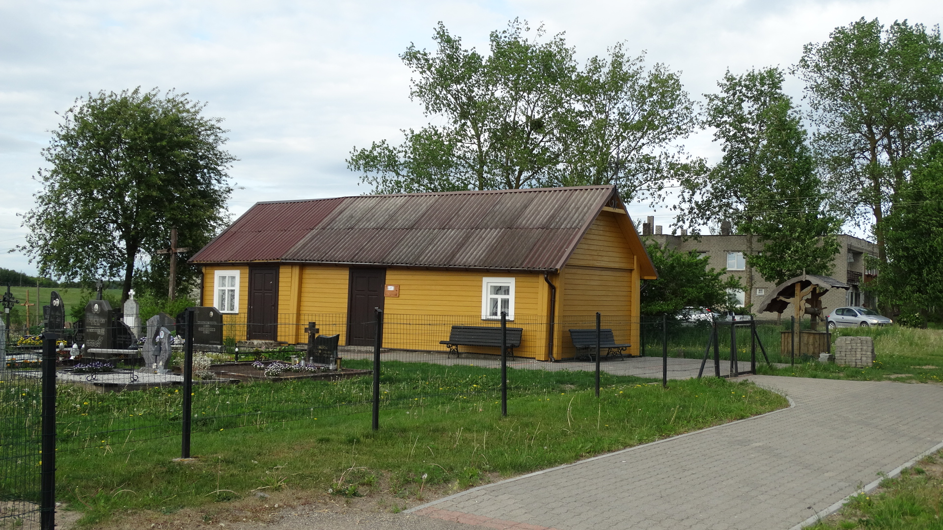 Vilkiškės chapel, Kaišiadorys District, Lithuania